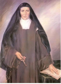 Portrait of Teresa Toda, foundress of Carmelite Teresian Sisters of Saint Joseph